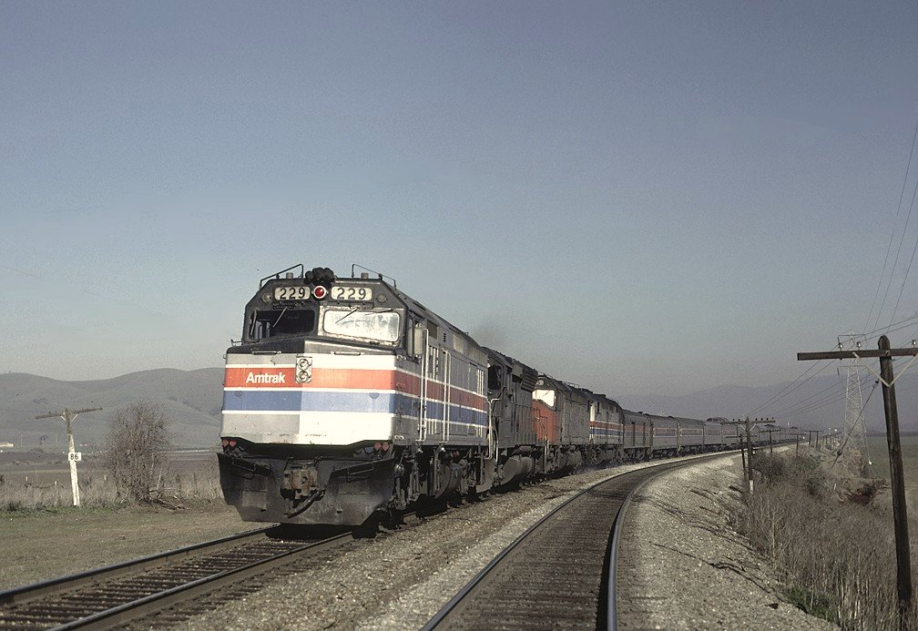 Amtrak F40 #229 leading an SP SD45 and two Amtrak SDP40F's at Corporal, CA (just South of Gilroy in December of 1979